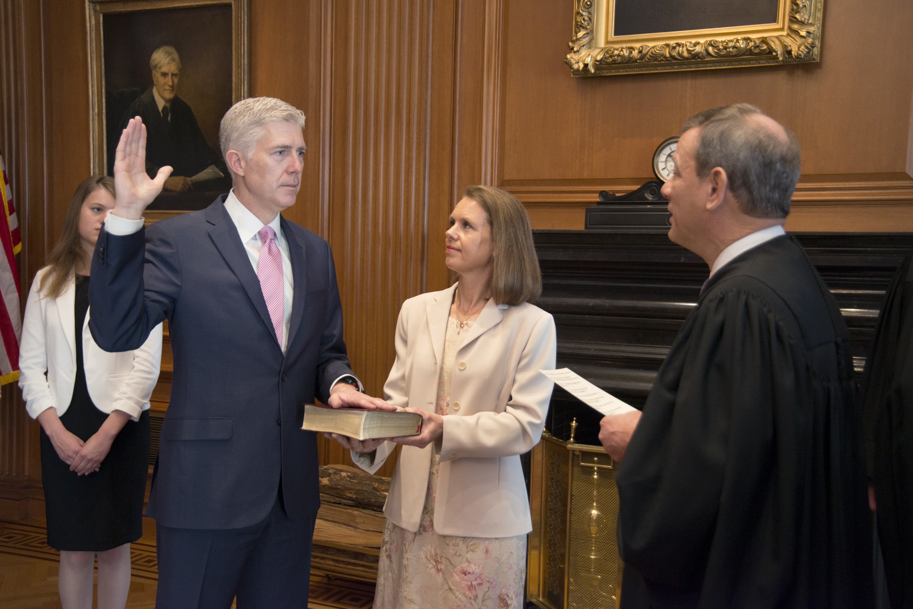 On April 10, 2017, Chief Justice John G. Roberts, Jr., administered the Constitutional Oath to the Honorable Neil M. Gorsuch in a private ceremony attended by the Justices of the Supreme Court and members of the Gorsuch family. The oath was administered in the Justices’ Conference Room at the Supreme Court Building. Chief Justice John G. Roberts, Jr., administers the Constitutional Oath to Judge Neil M. Gorsuch in the Justices' Conference Room, Supreme Court Building. Mrs. Louise Gorsuch holds the Bible.